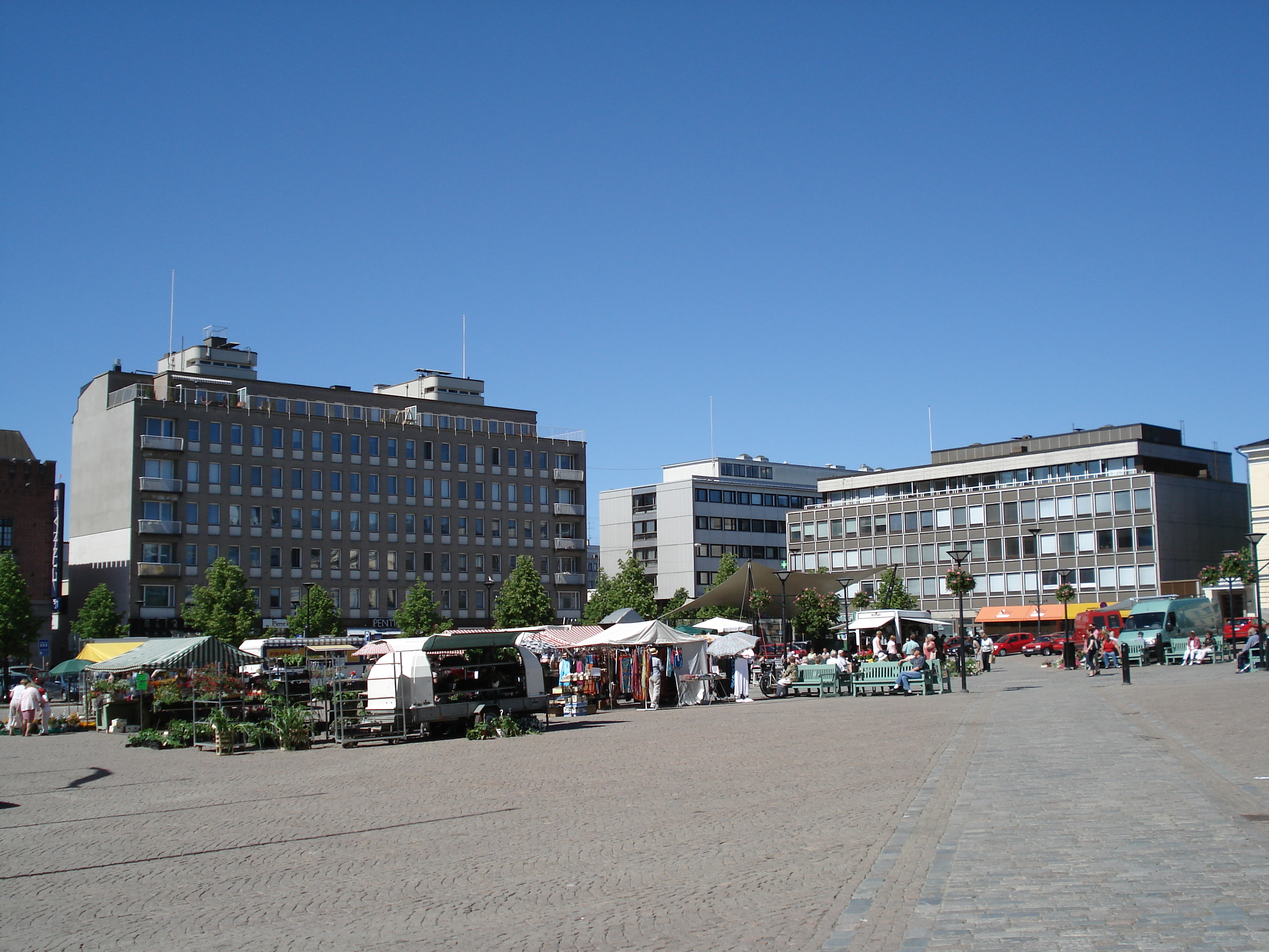 Market square in Hämeenlinna, Finland.